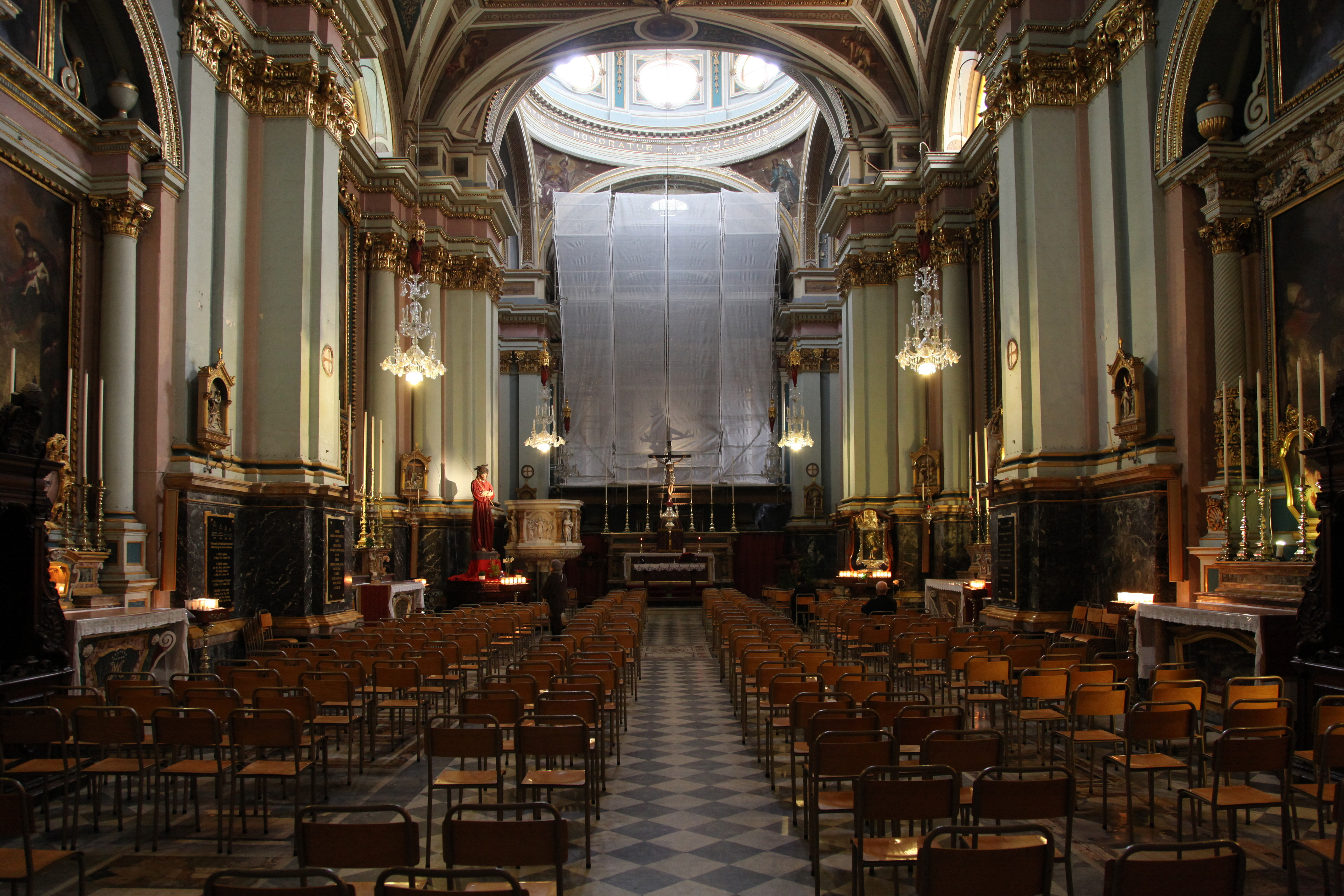 Church of St. Francis of Assisi, Triq Melita in Valletta, Malta